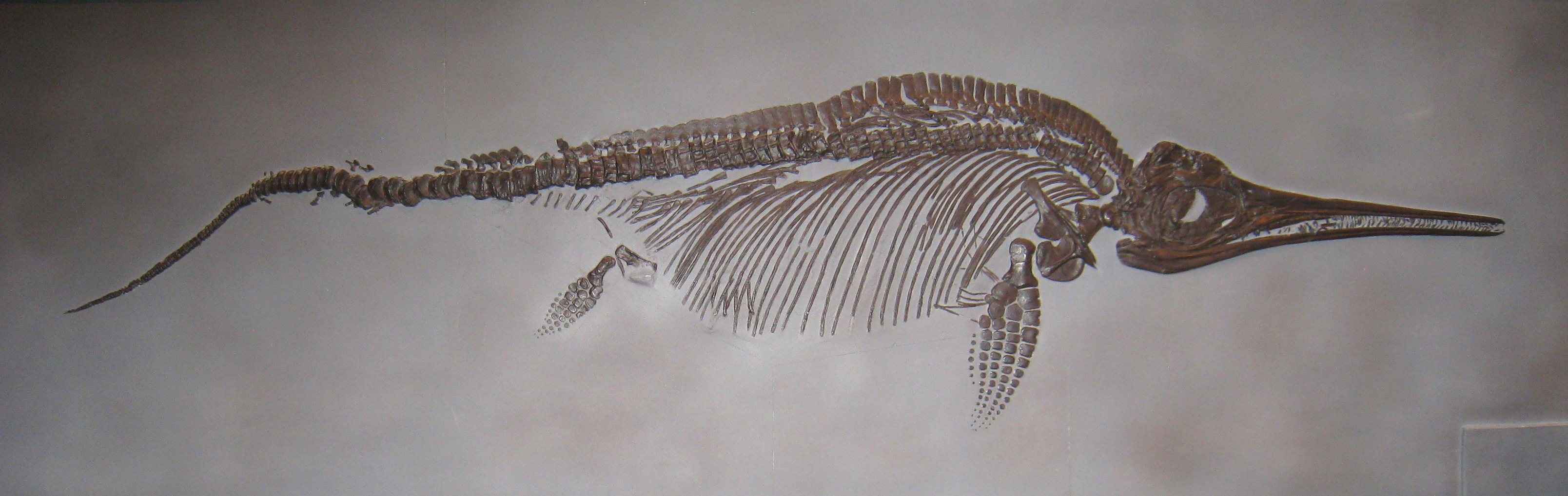 Stenopterygius quadriscissus fossil in the Utah Museum of Natural History, Salt Lake City, Utah, USA.